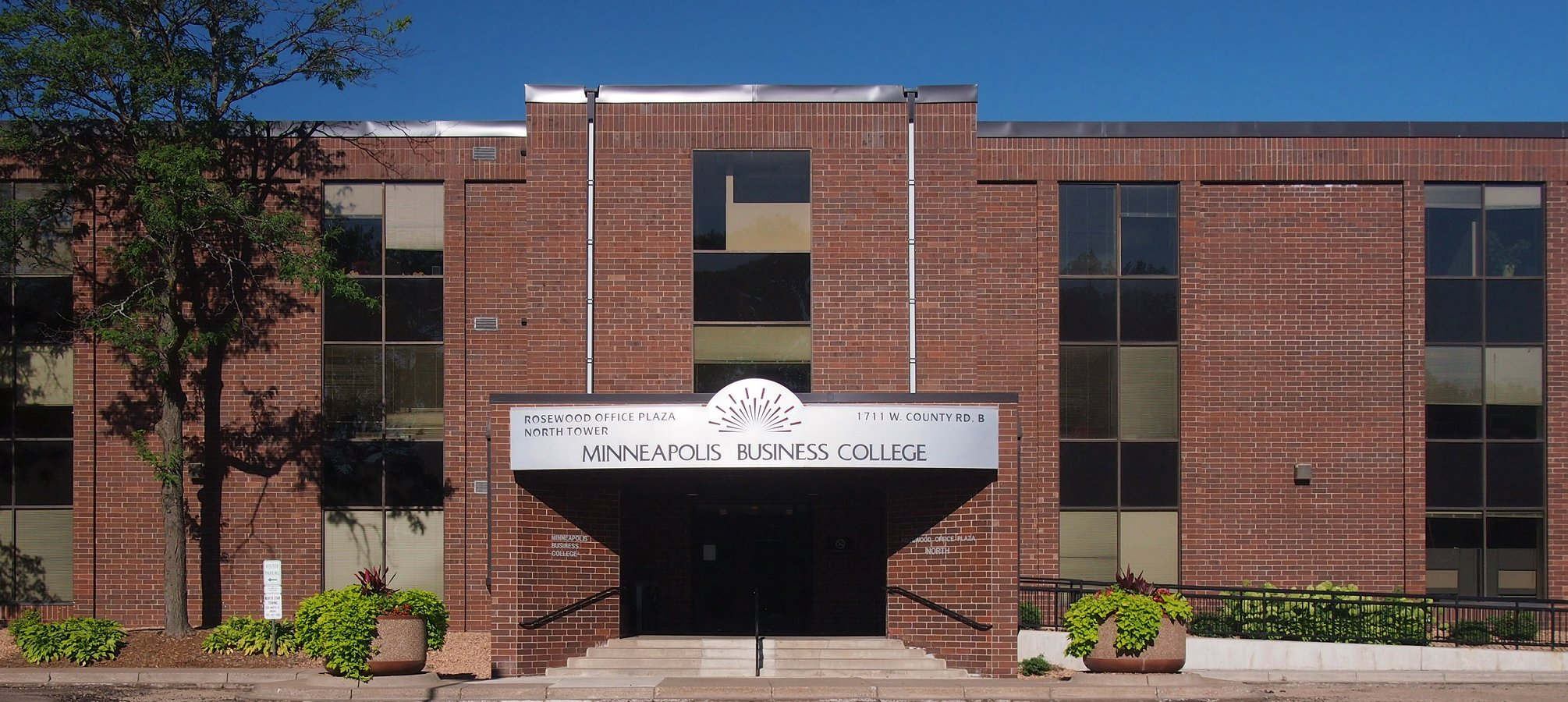 Minneapolis Business College, 1711 West County Rd B, Roseville, Minnesota, USA. Viewed from the east.